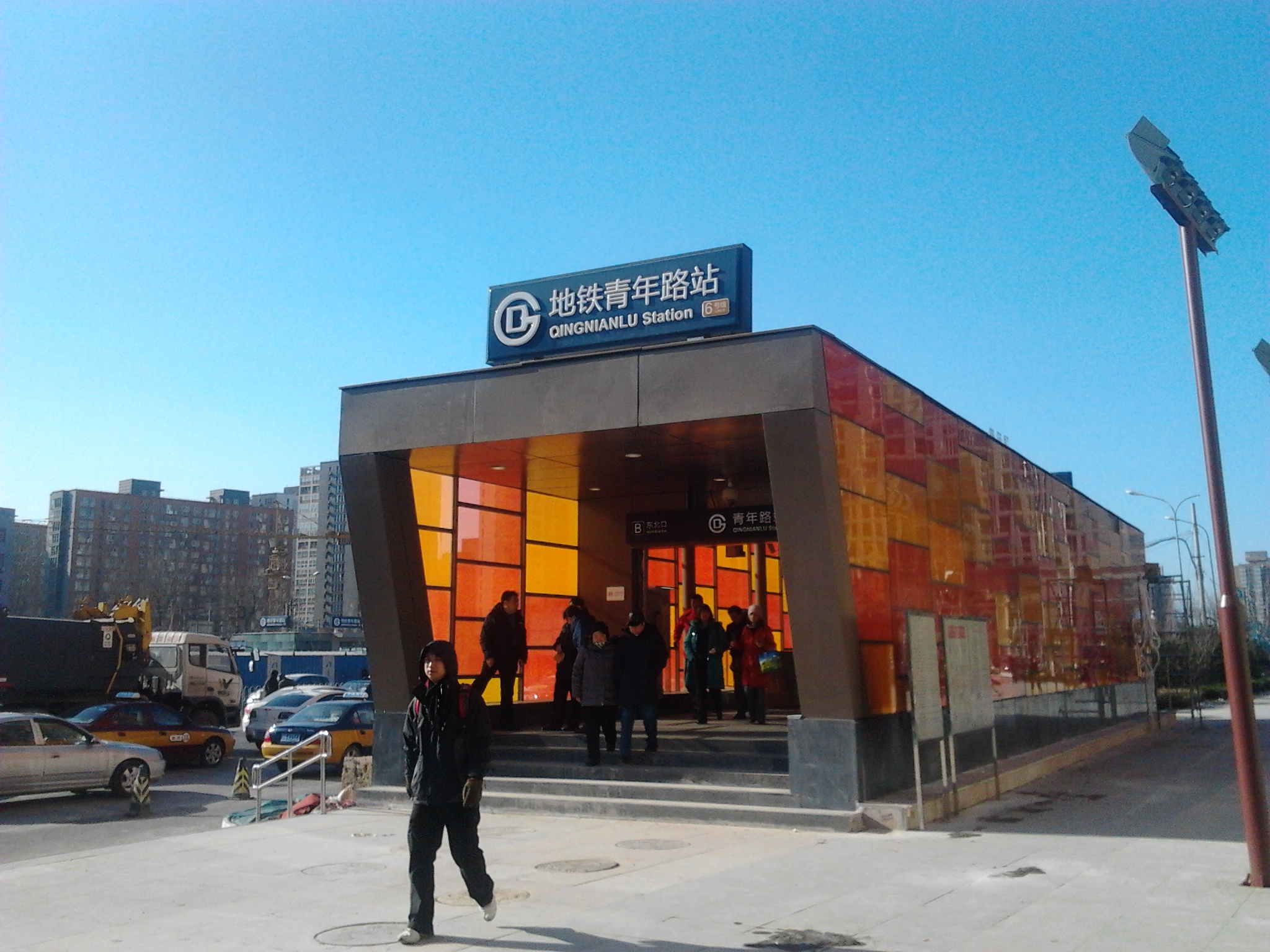 Exit B of Qingnianlu Station Beijing Subway